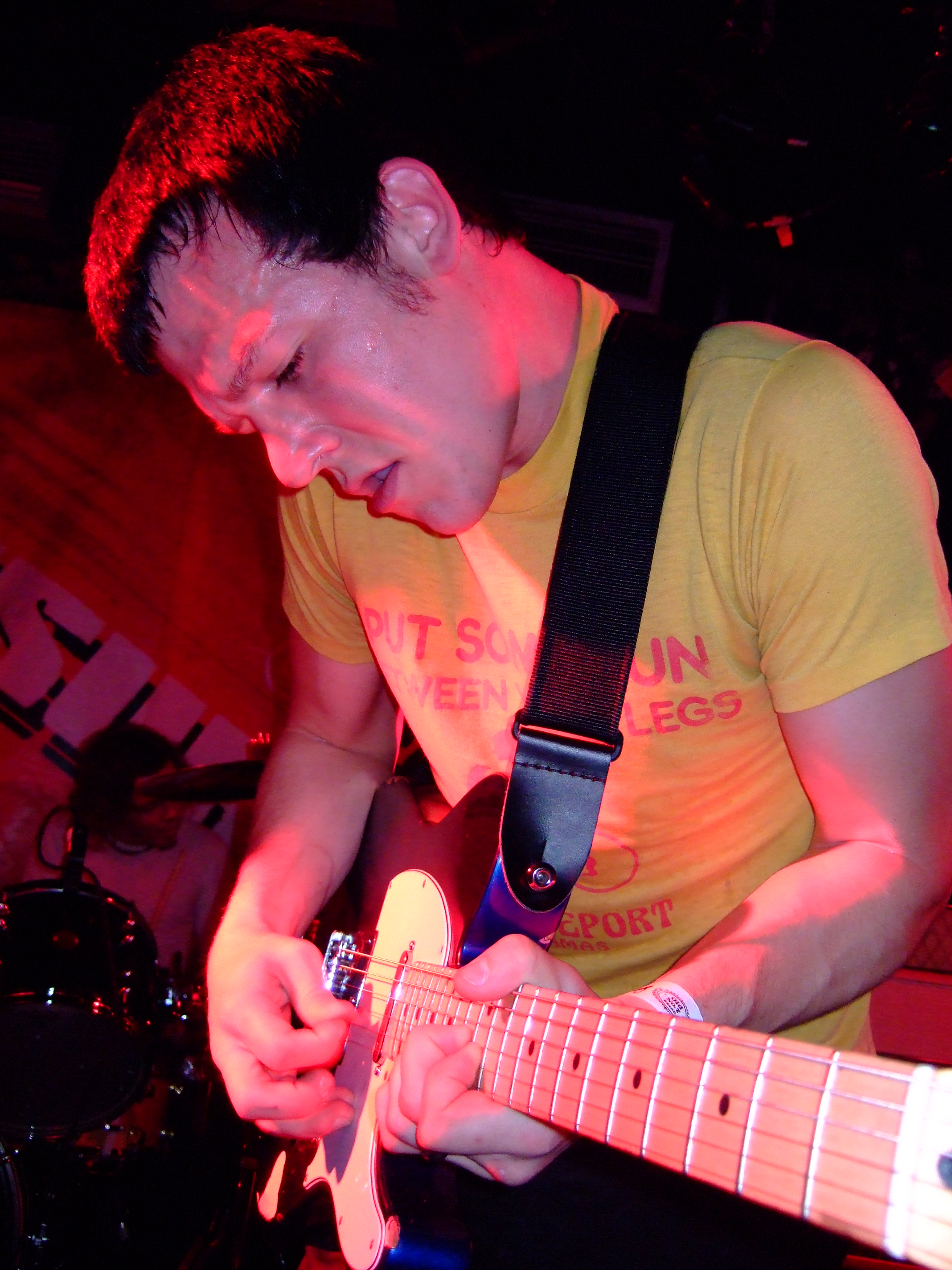 Cage the Elephant performing at London Barfly as support for Ida Maria on 18 March 2008 Summary Cage the Elephant performing at London Barfly as support for Ida Maria on 18 March 2008